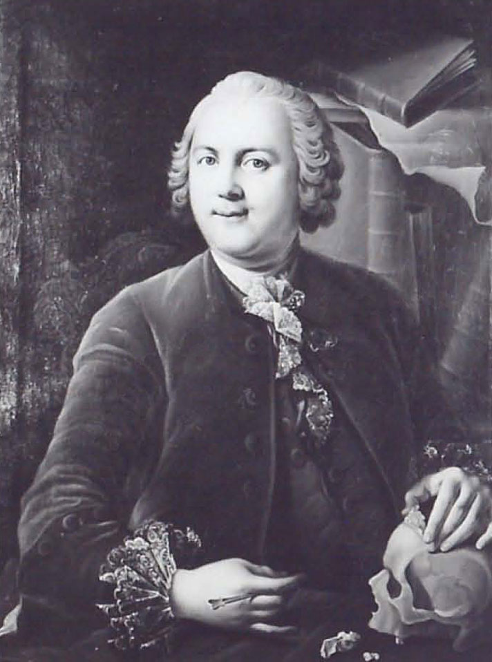 Abraham Kaau-Boerhaave (1715-1758) dutch Physician